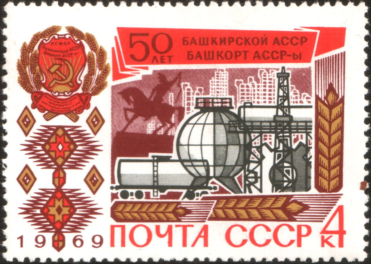 USSR stampː Oil Refinery and Salawat Yulayev Monument. Seriesː 50th Anniversary of the Bashkir Autonomous Soviet Socialist Republic (1919.03.23)